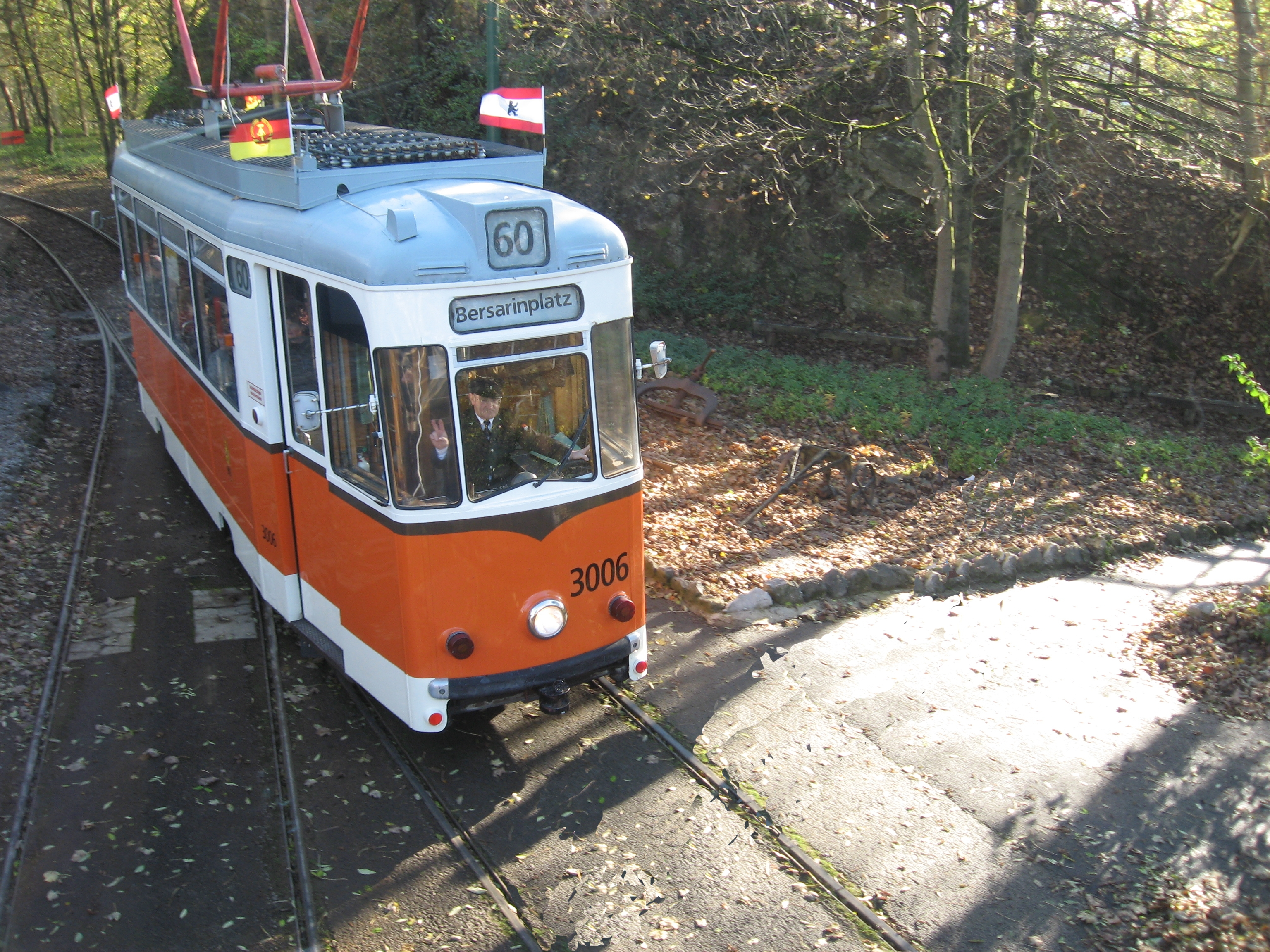 Berlin tram (Rekowagen) in Crich Tramway Village